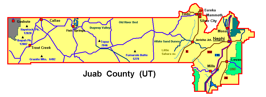 Juab County (UT) Details, selfmade graphic by R. Blauert Dk4hb